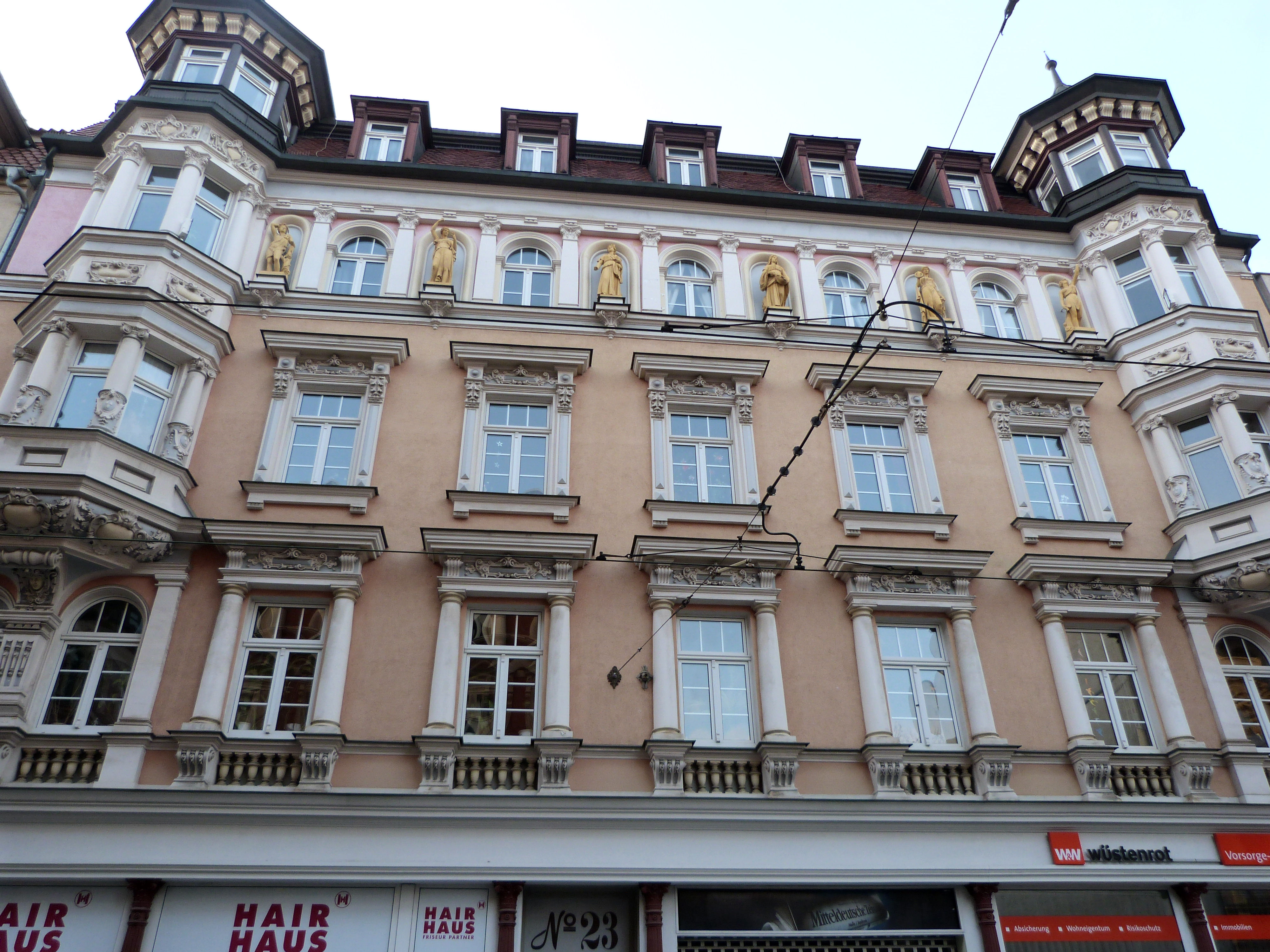 House No. 23 Geiststrasse in Halle (Saale) Gegë: Geiststraße 23, Halle (Saale)